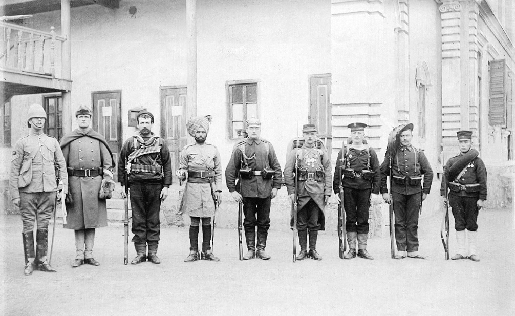 Troops of the Eight nations alliance of 1900 in China. Left to right: Britain, United States, Australia (British Empire colony at this time), India (British Empire colony at this time), Germany (German Empire at this time), France, Austria-Hungary, Italy, Japan.